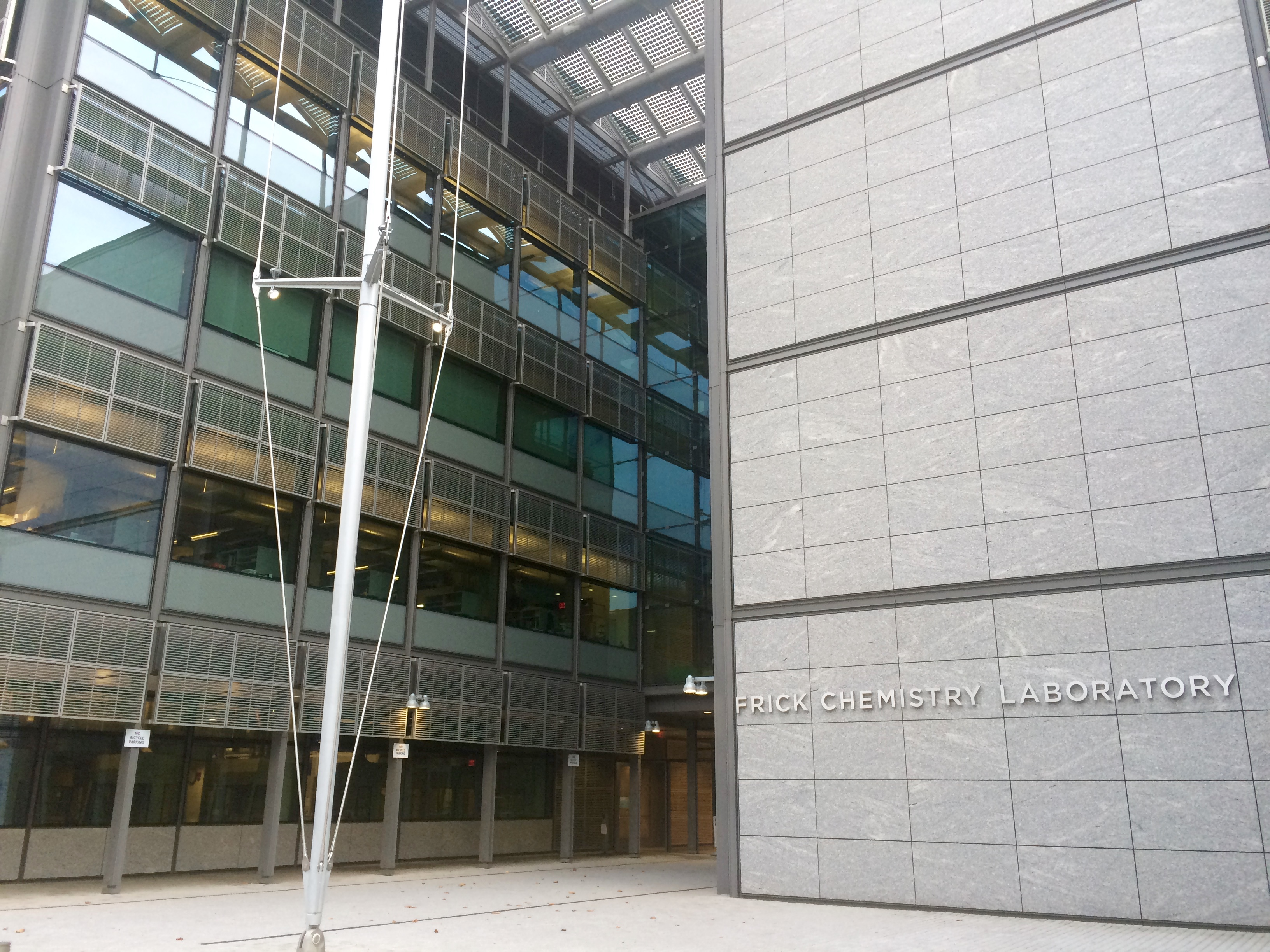 The new Frick Chemistry Laboratory, home to the Chemistry Department of Princeton University, opened in 2010 to replace the previous Frick Laboratory